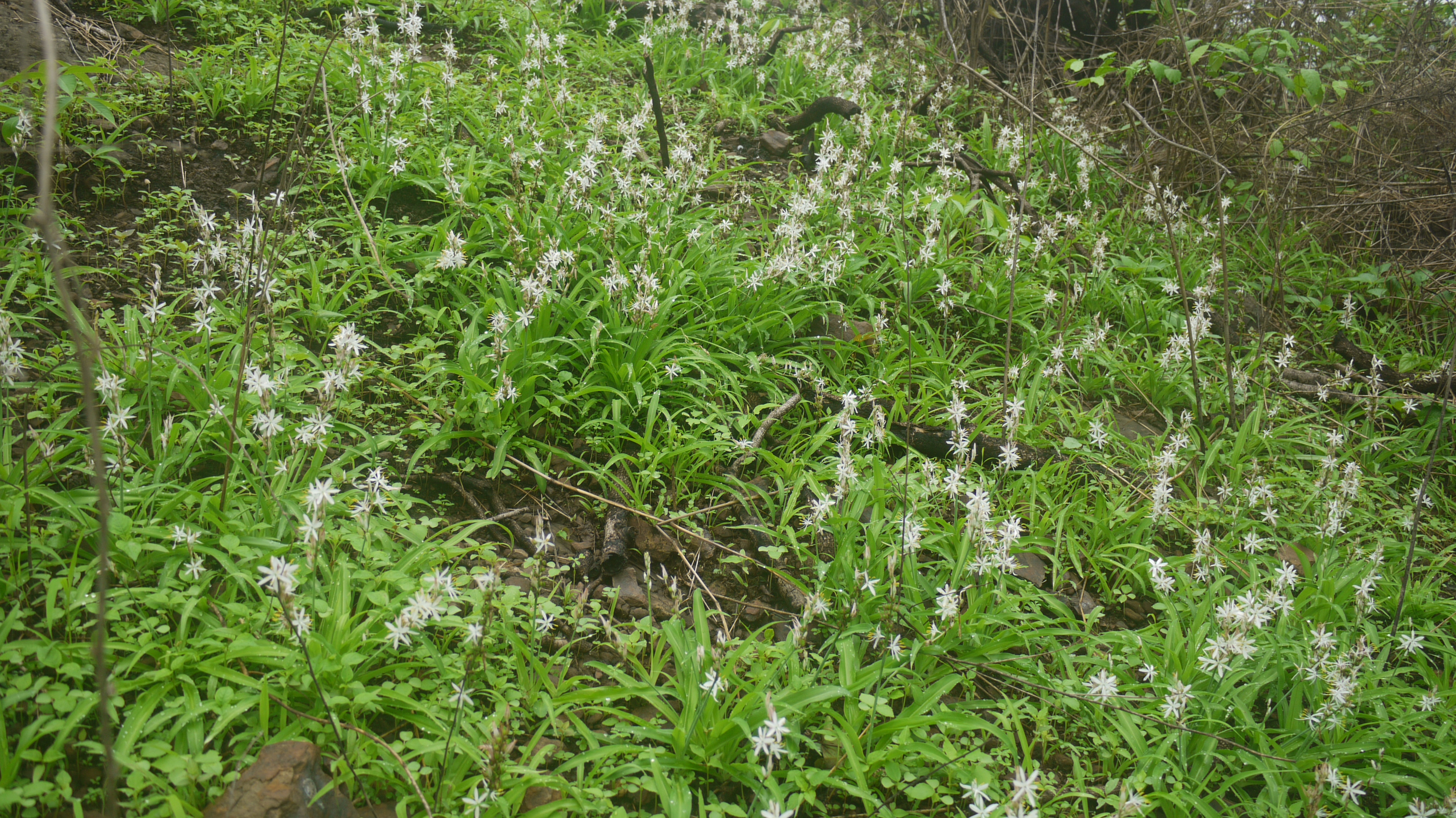 Liliaceae (lily family) » Chlorophytum borivilianum kloh-roh-FY-tum -- from the Greek chloros (green), and phyton (plant) bory-wili-YAH-num -- of or from Borivili National Park, India commonly known as: safed musali • Gujarati: ધોળુ મૂસળી dholu musli • Hindi: सफ़ेद मुसली safed musli • Marathi: कुळई kulai, सफेत मुसळी safet musli Endemic to: India (Maharashtra and Gujarat; elsewhere cultivated) References: Flowers of India • FRLHT • Further Flowers of Sahyadri - Shrikant Ingalhalikar